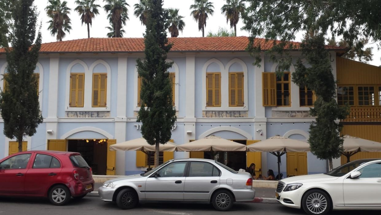 Beit H'Tavshil Rishon Letzion